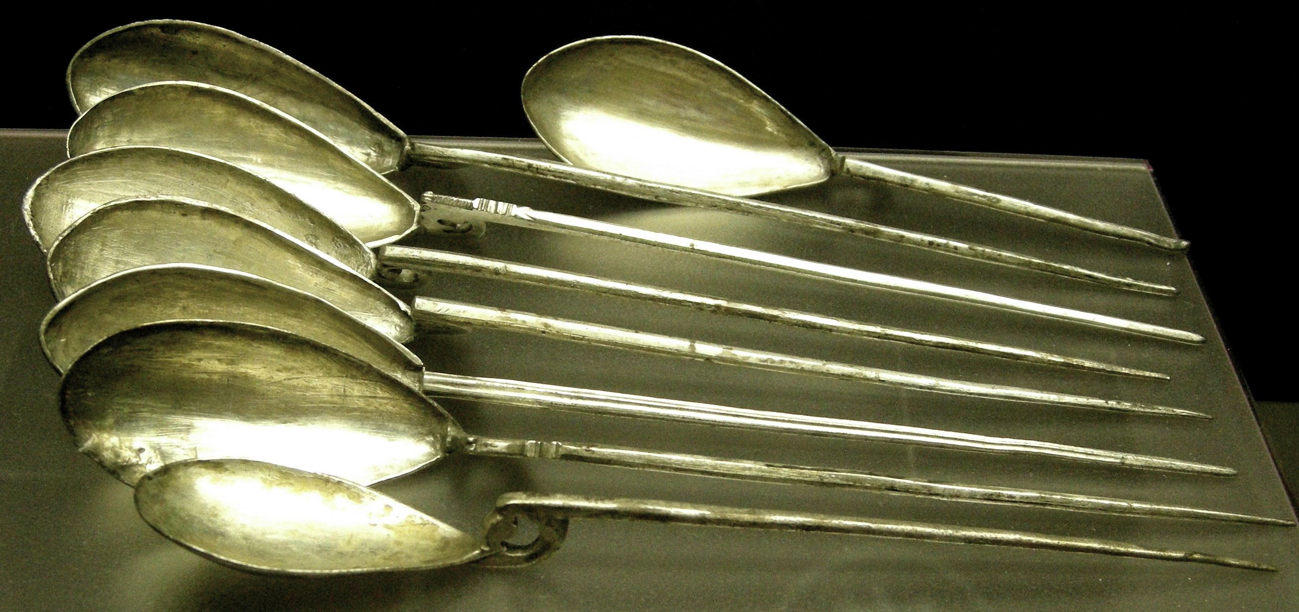 Roman Museum in Butchery Lane, Canterbury, Kent. Silver spoons from hoard dating from early 5th century, found in Longmarket area. The spoons are discoloured with unusual black and green oxide, said to have been caused by the chemical placed in the display case to control humidity. Spoon bowls are annealed and cold-stamped; handles are forged; handle-bases are cut from thick silver; patterns are punched with a die: all techniques are still in use today by silversmiths.